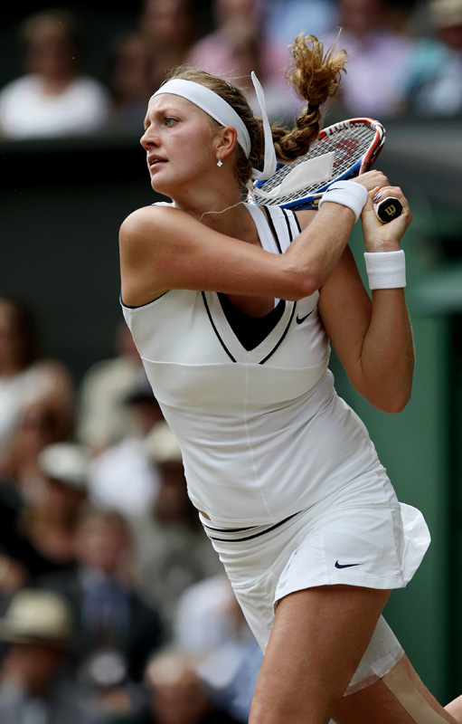 Czech tennis player Petra Kvitova in the final match at the 2011 Wimbledon against Maria Sharapova